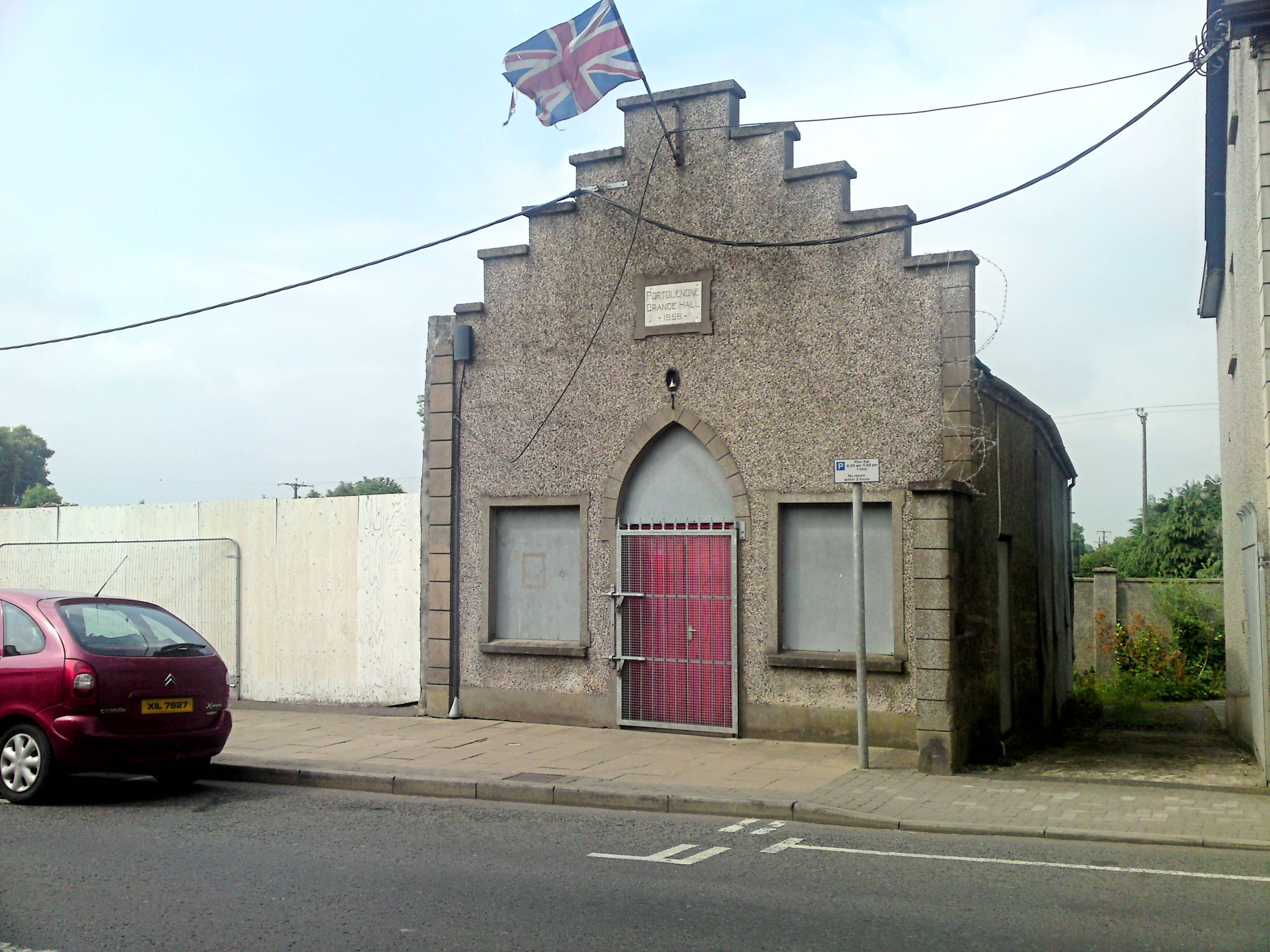 Portglenone Orange Hall.It is located in Main Street and appears to be heavily fortified.